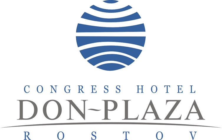 logo congress